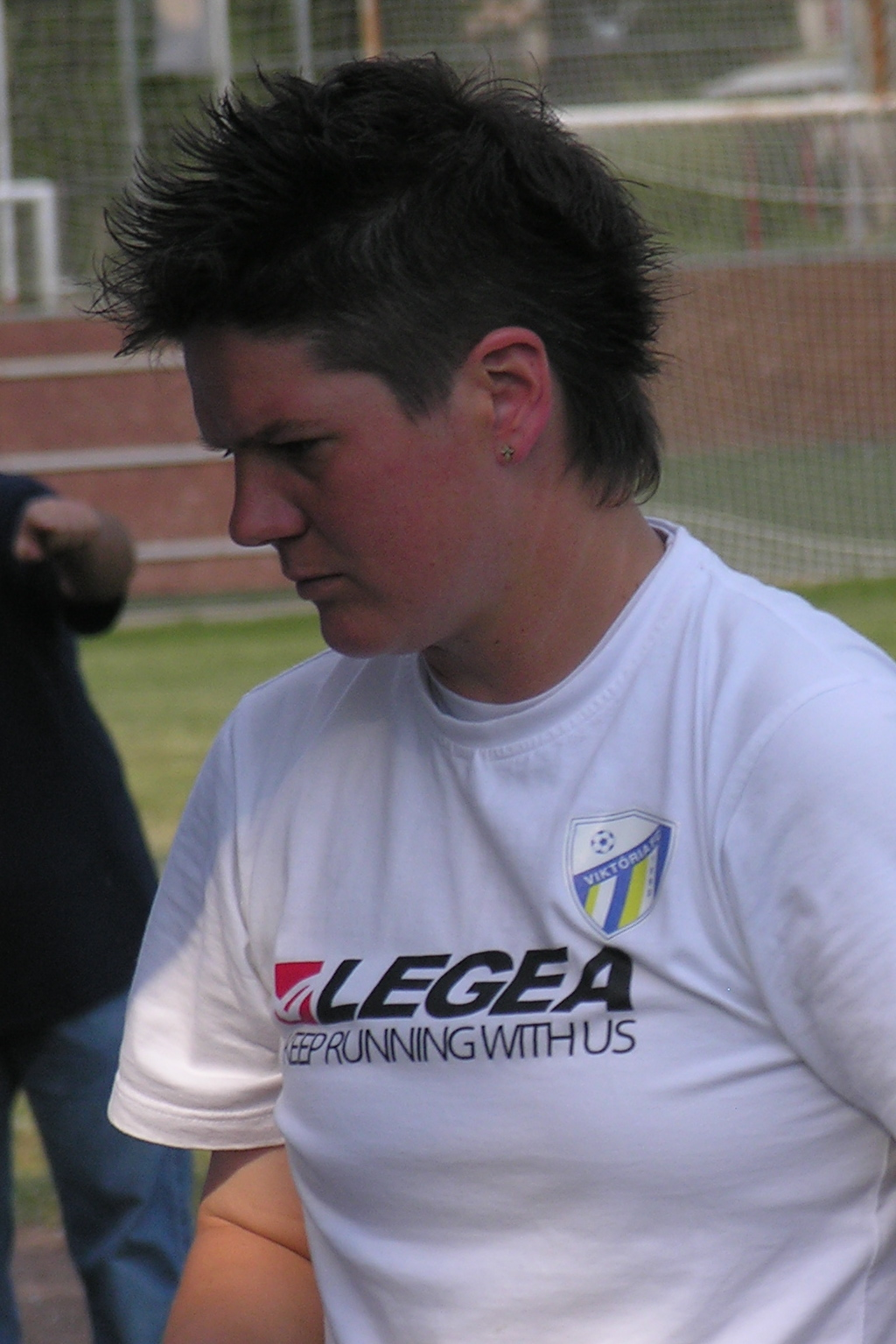 Melinda Szvorda Hungarian international football playerUnknown